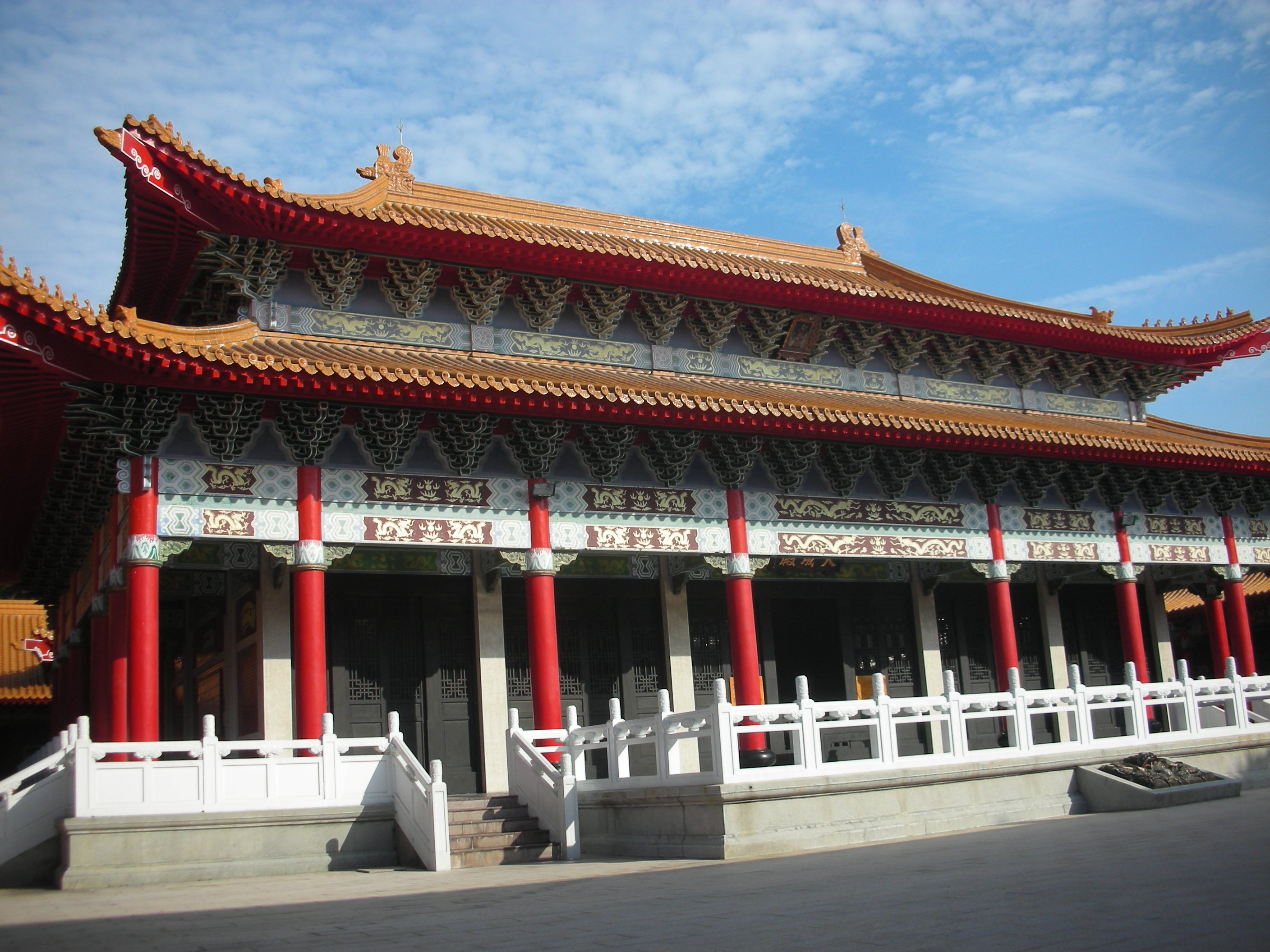 Taoyuan Confucius Temple